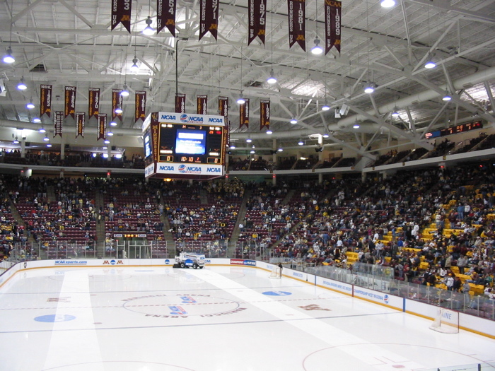 taken by me in march 2005 during NCAA West Ice Hockey regionals Cornell Rockey 22:42, 10 January 2006 (UTC) Category:Images of Minnesota